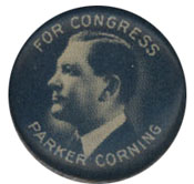 campaign button of former congressman Parker Corning of New York.